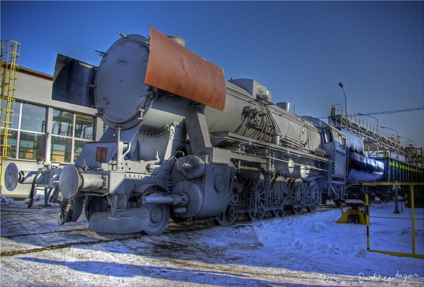 Ty2-559 locomotive during renovation.